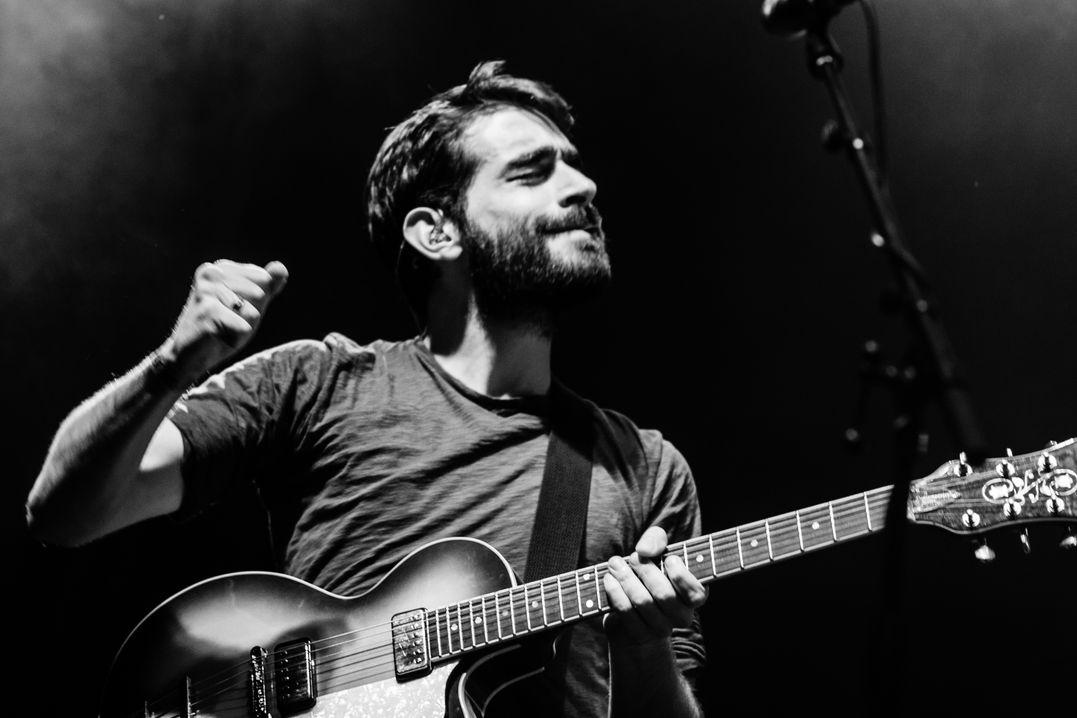 Follow me on facebook Twitter : @didyPhotography All the photographies I've made are now under CC0 (Creative Commons Zero) CC0 - learn more To the extent possible under law, Eddy BERTHIER has waived all copyright and related or neighboring rights to Pony Pony Run Run @ Bsf 2012. This work is published from: France.